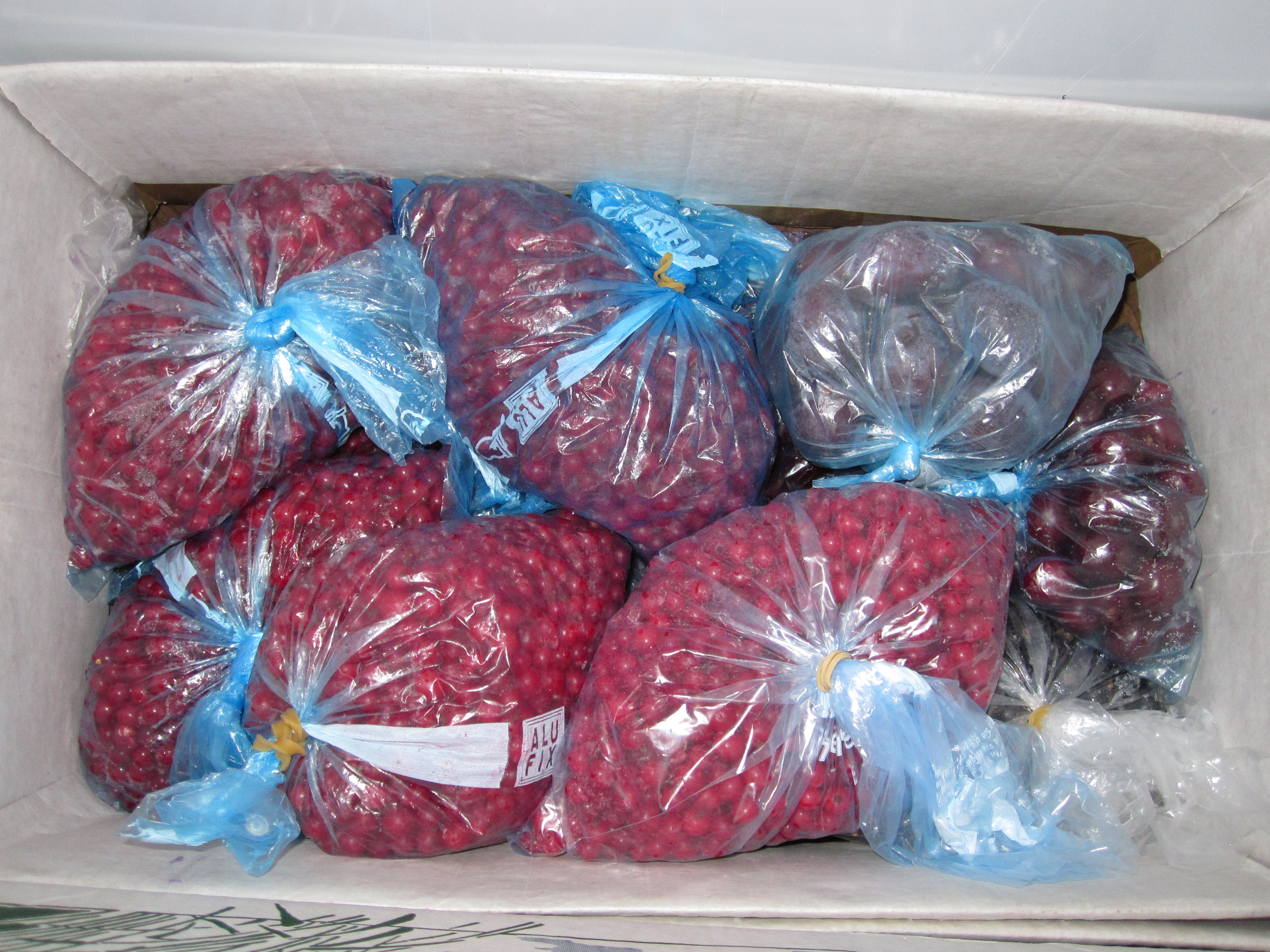 Freezing currants.Redcurrants and other fruits in the chest freezer.